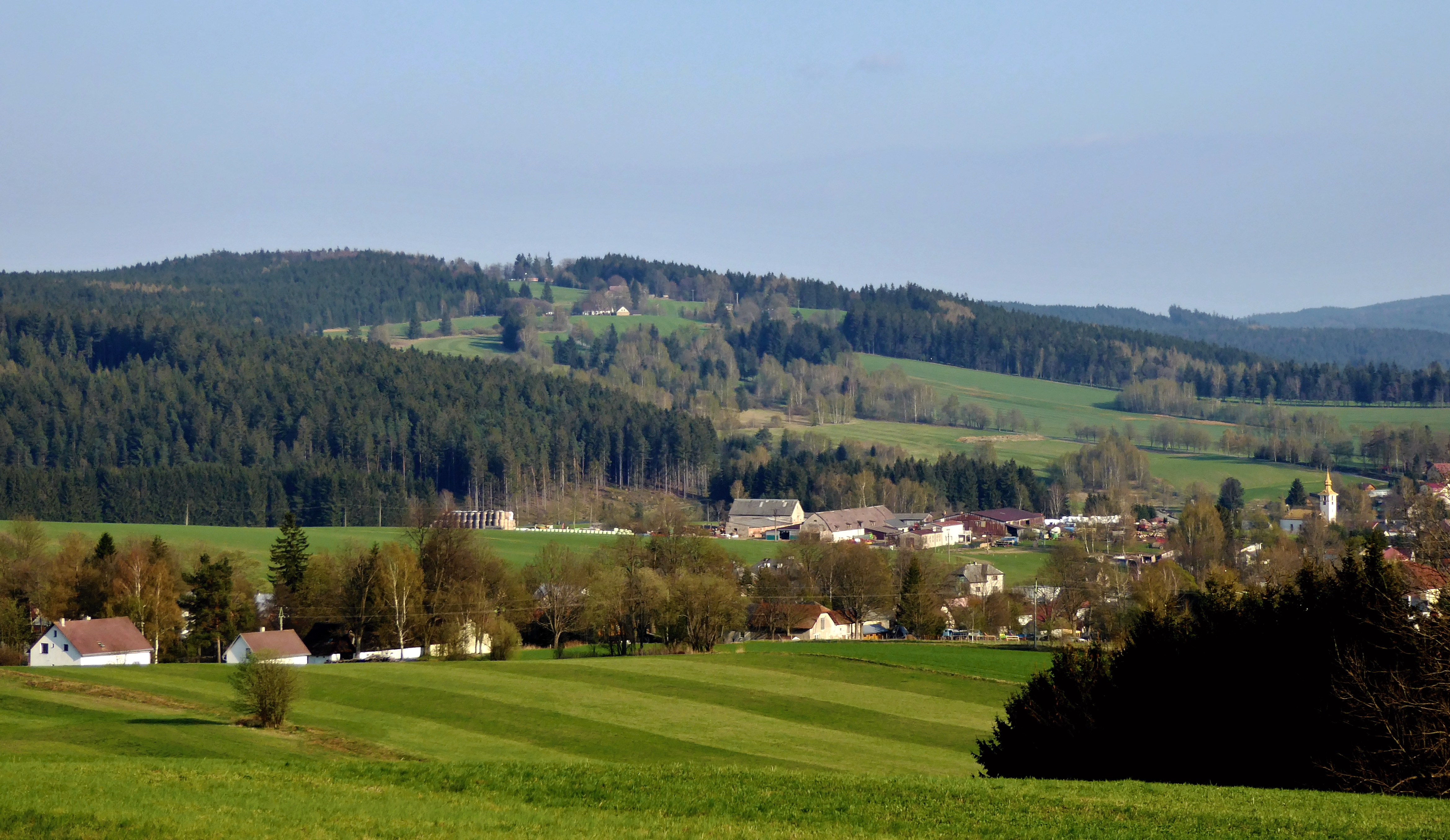 The mighty hill above the village of Svratouch, with the local name Karlštejn and the peak at an altitude of 784 m (according to the contour map), the trigonometric point with a elevation 783.4 m, several tens of meters from the peak in the forest. In the top part of the hill is the settlement location Karlštejn (part of the village Svratouch) and originally a hunting chateau of the same name, built in 1770-1776 in the late Baroque style. A local road leads from the center of Svratouch to the top, the end of the path at the chateau object. The peak is the highest point on the Earth's surface in the geomorphological district of "Borovský" forest , in the regional divide of the georelief is part of Žďárské vrchy, in the north-western part of the "Hornosvratecká" highlands (geomorphological whole). Summary from the Czech description. Photo-location: Czechia, Pardubice Region, the village of "Svratouch", meadows below the peak "U oběšeného", distance 4 km (azimuth 120°).